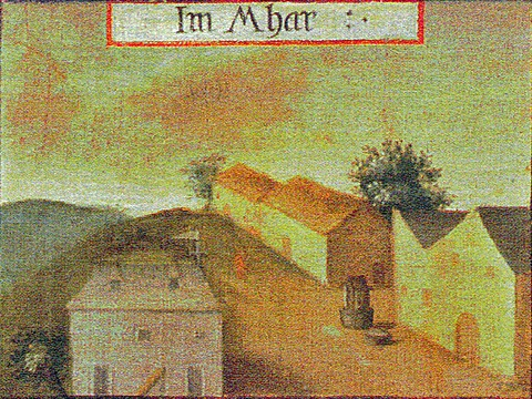 Maar Quarter in 1589